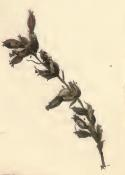 Stainton’s Natural History of the Tineina (1855–1873): Coleophora artemisicolella sprig of Artemisia vulgaris with larva-cases attached to the seeds